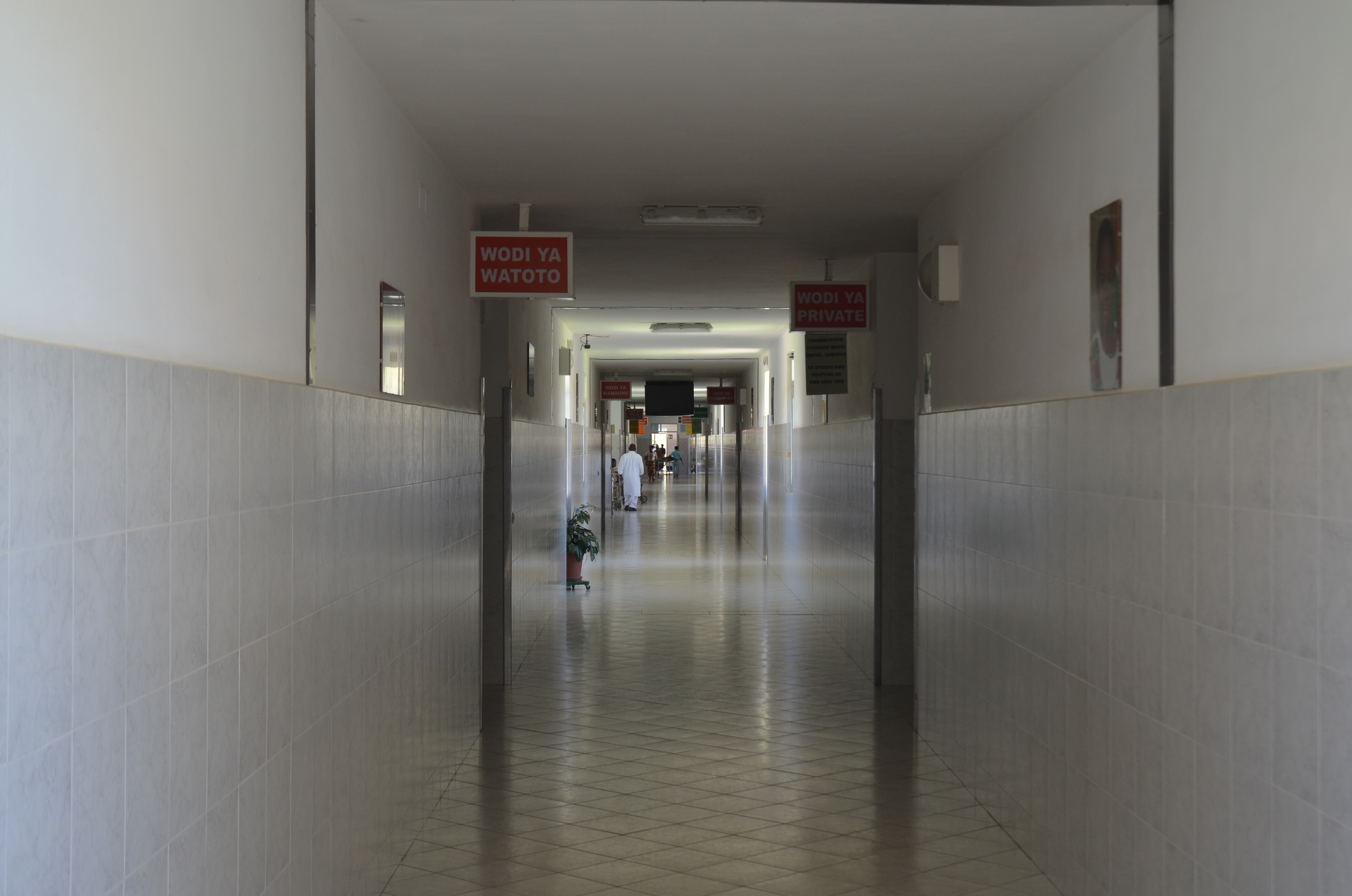 A picture from the hospital in Ikonda in the Tanzanian Southern Highlands (Makete District, Njombe Region).